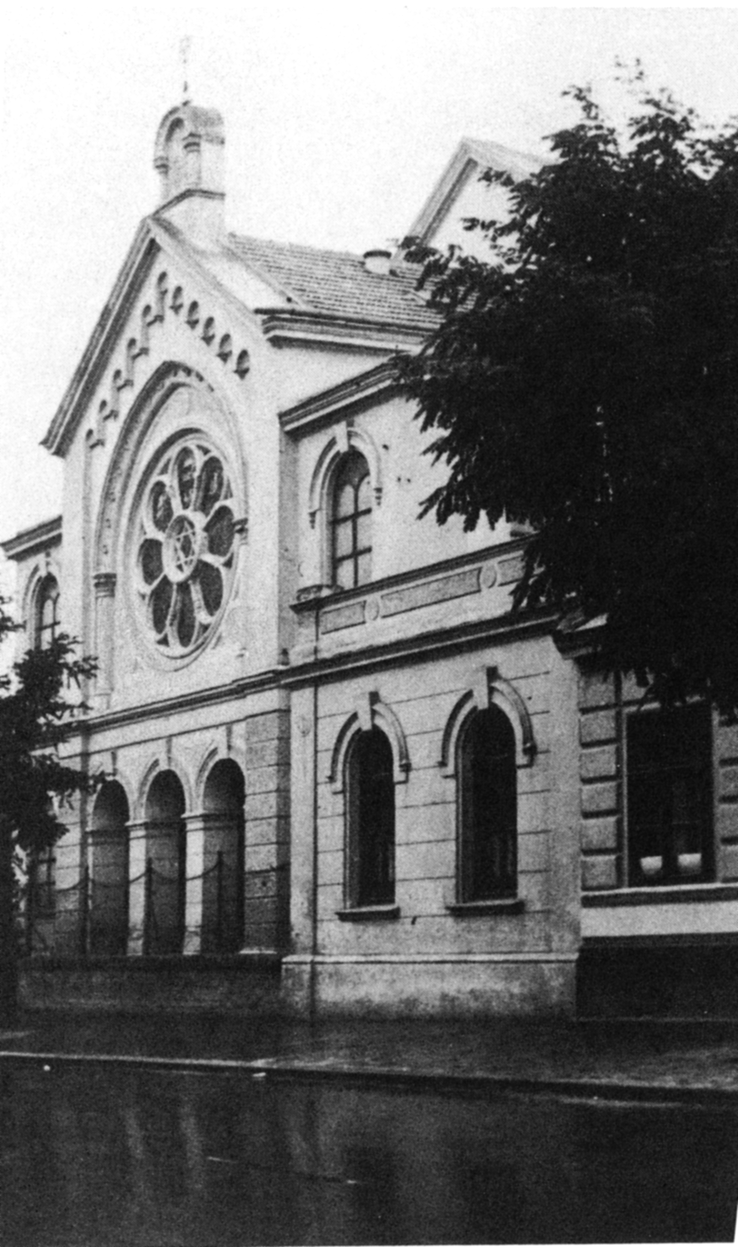 Photo of the Simmeringer Tempel in Vienna.